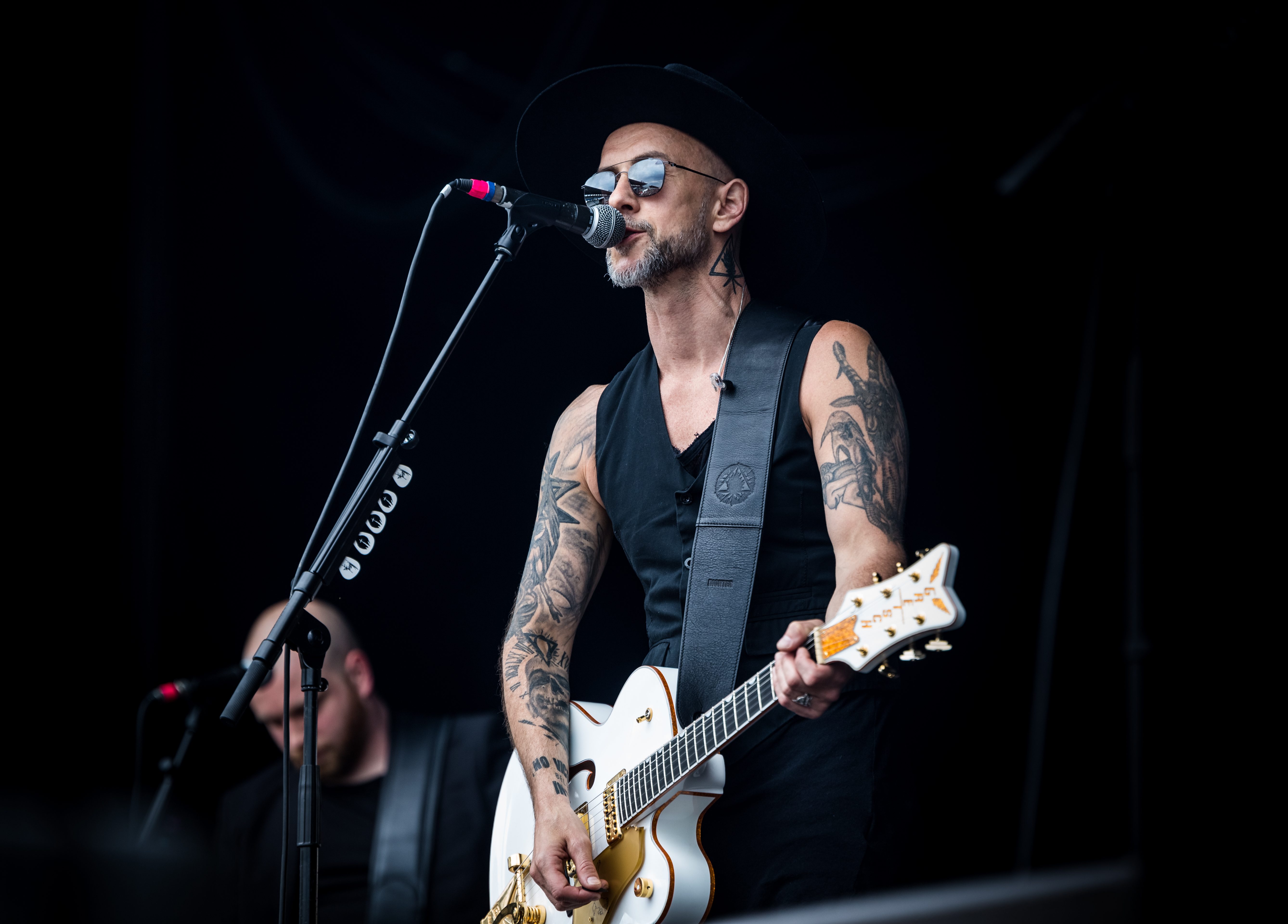 Me and That Man - Rock am Ring 2017